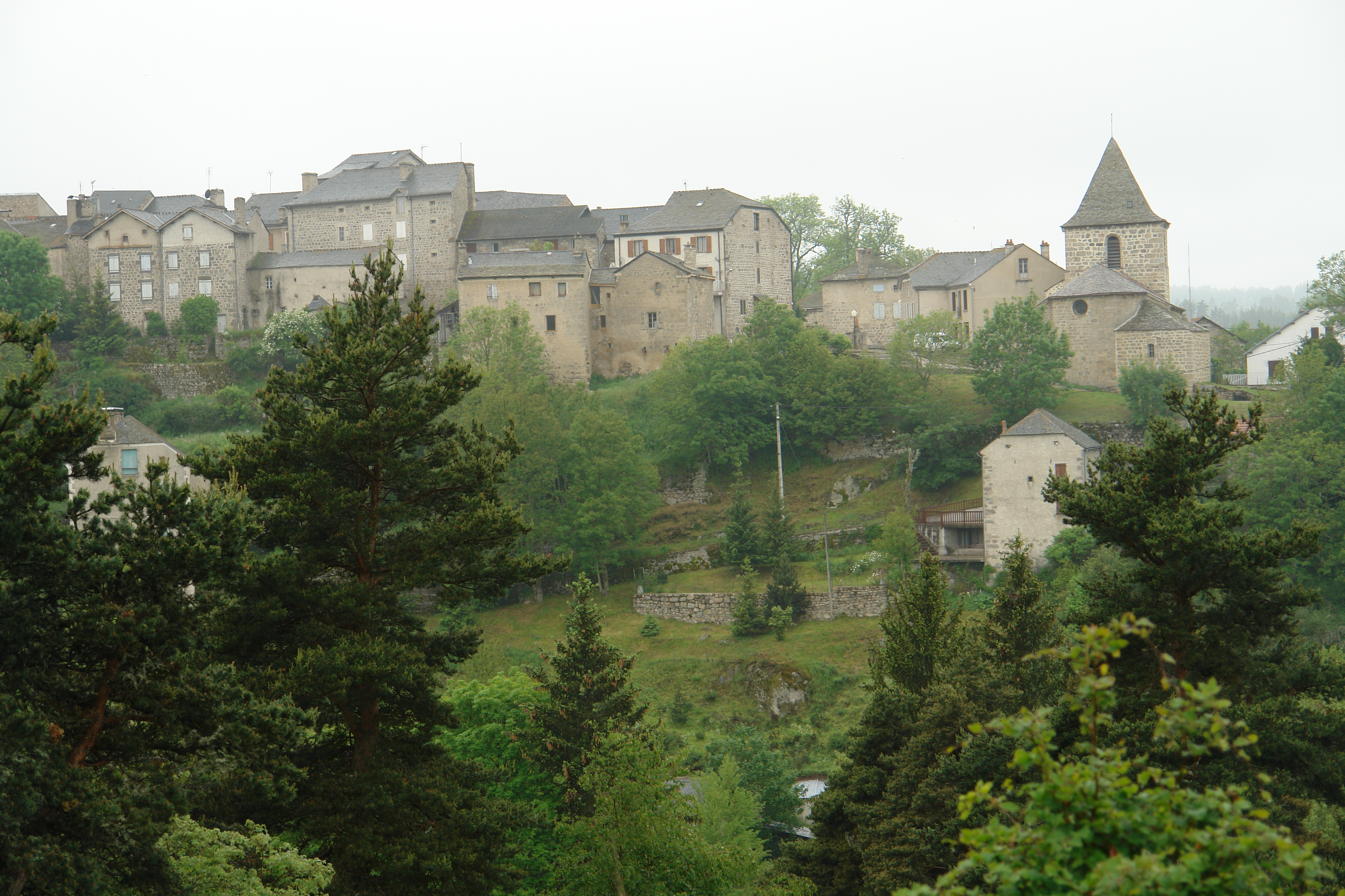 Map it: Google Earth | Street | Satellite | Hybrid | Nautical